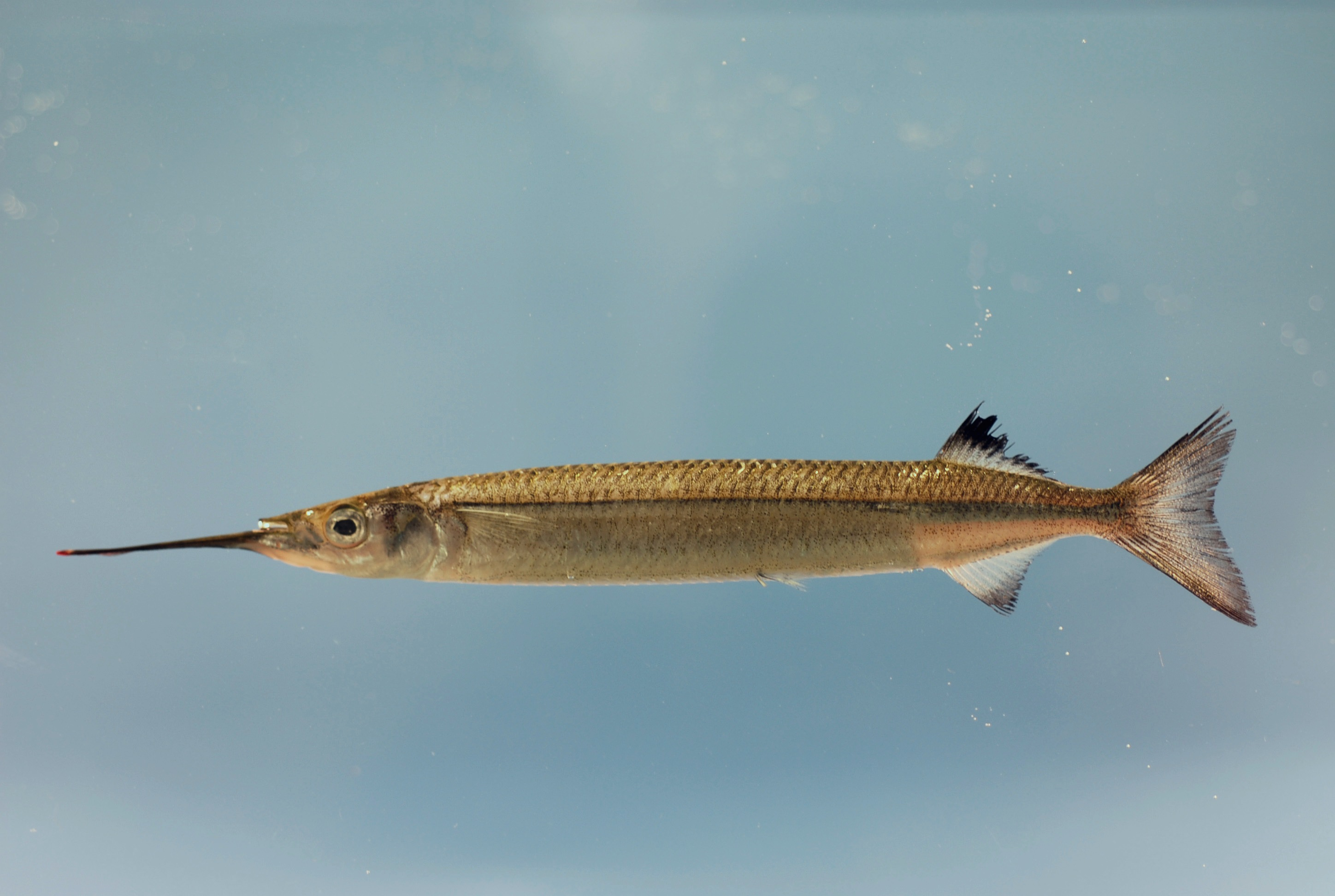 Hyporhamphus meeki from the Gulf of Mexico